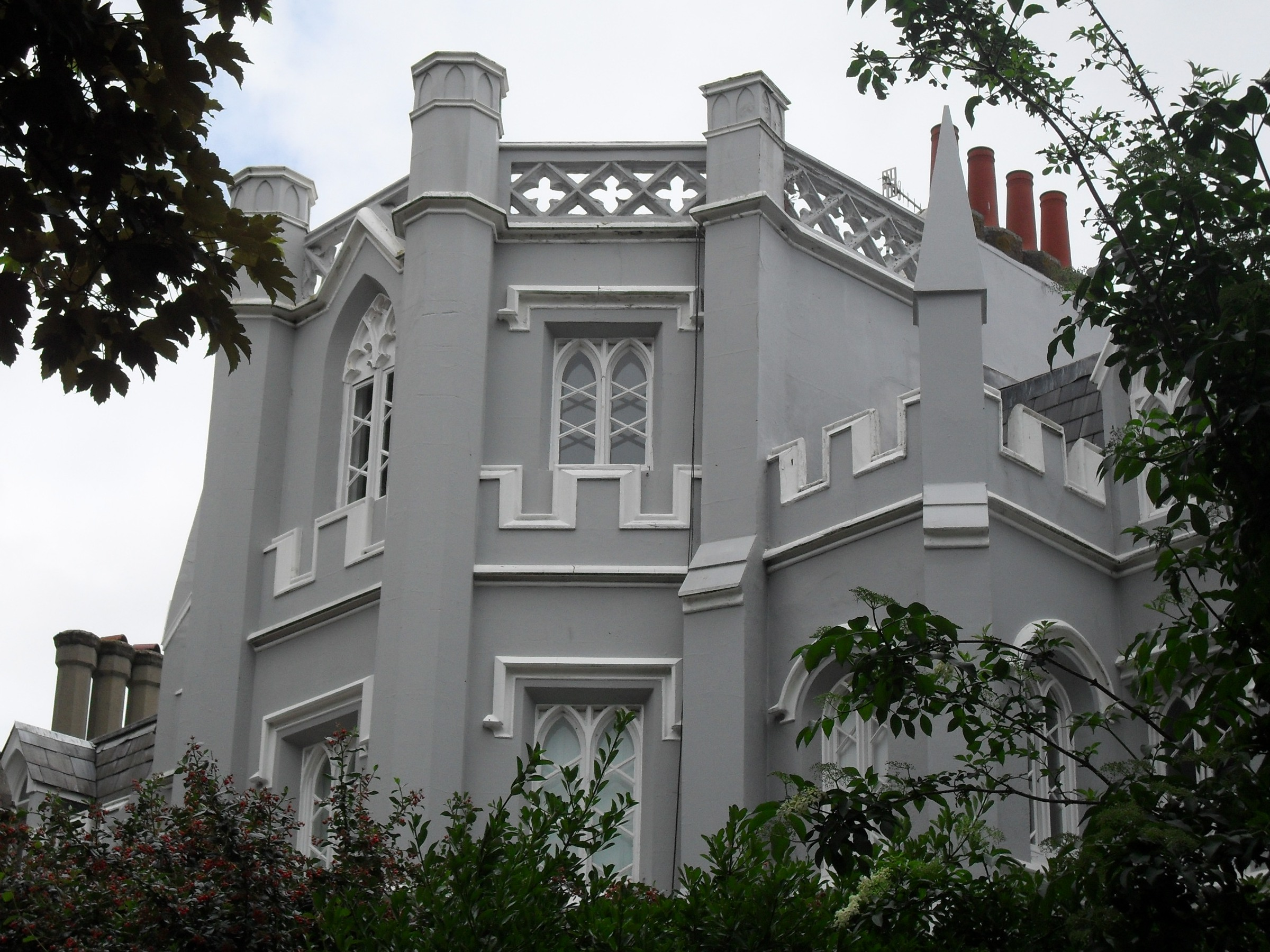 Centre bay at 7 and 8 Wykeham Terrace, Brighton, City of Brighton and Hove, England. A terrace of 12 houses in the Tudor-Gothic style, built in 1827 possibly by Amon Henry Wilds. Listed at Grade II by English Heritage (IoE Code 481458)